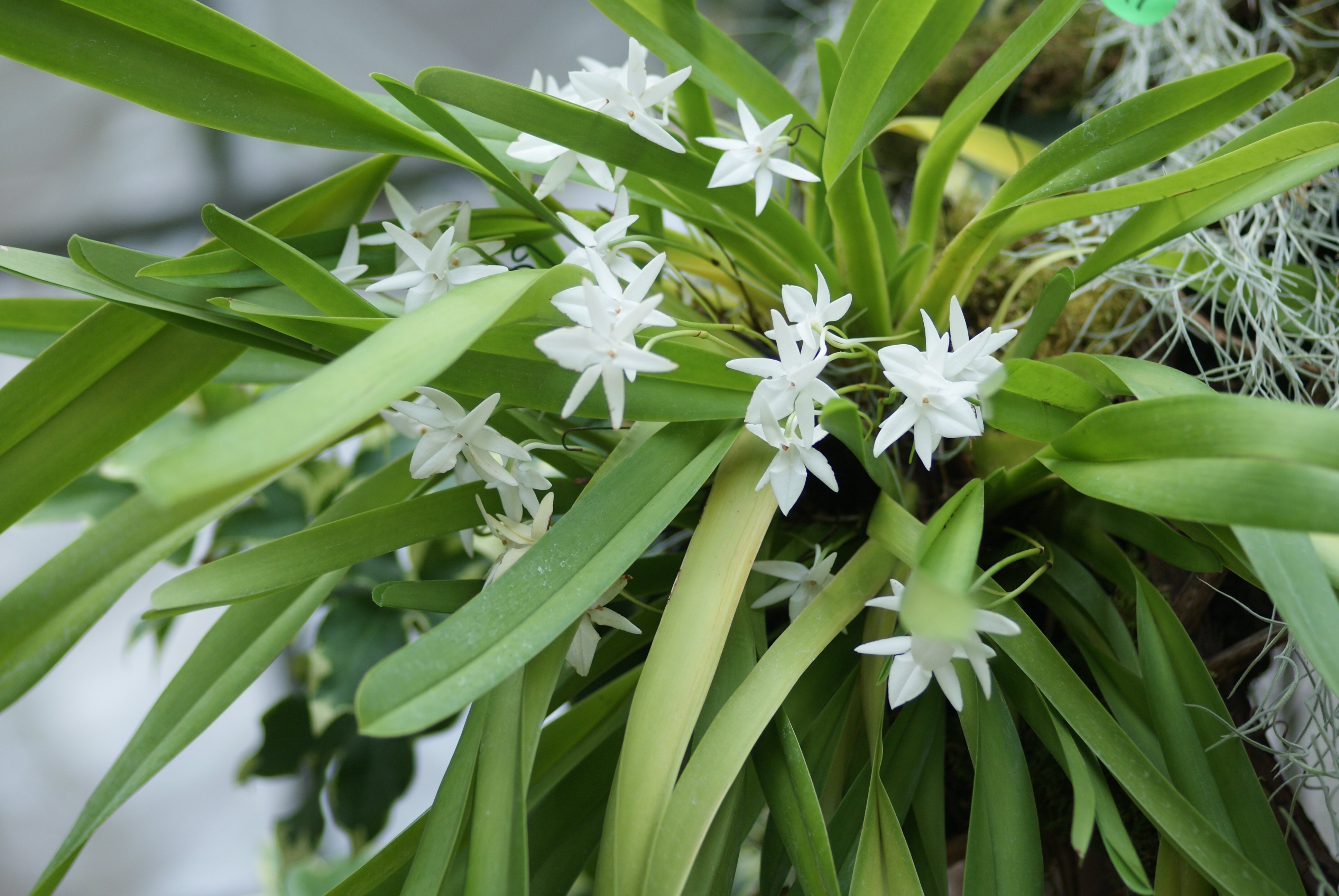 Jumellea arachnantha